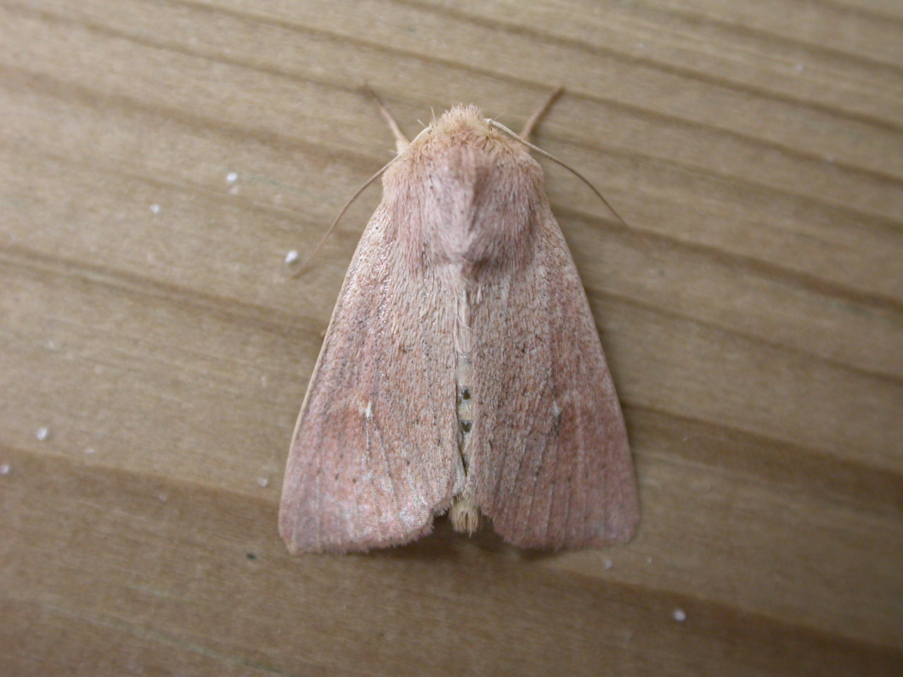 Mythimna ferrago, Gastes, Landes, SW France, 1/2 July 2003